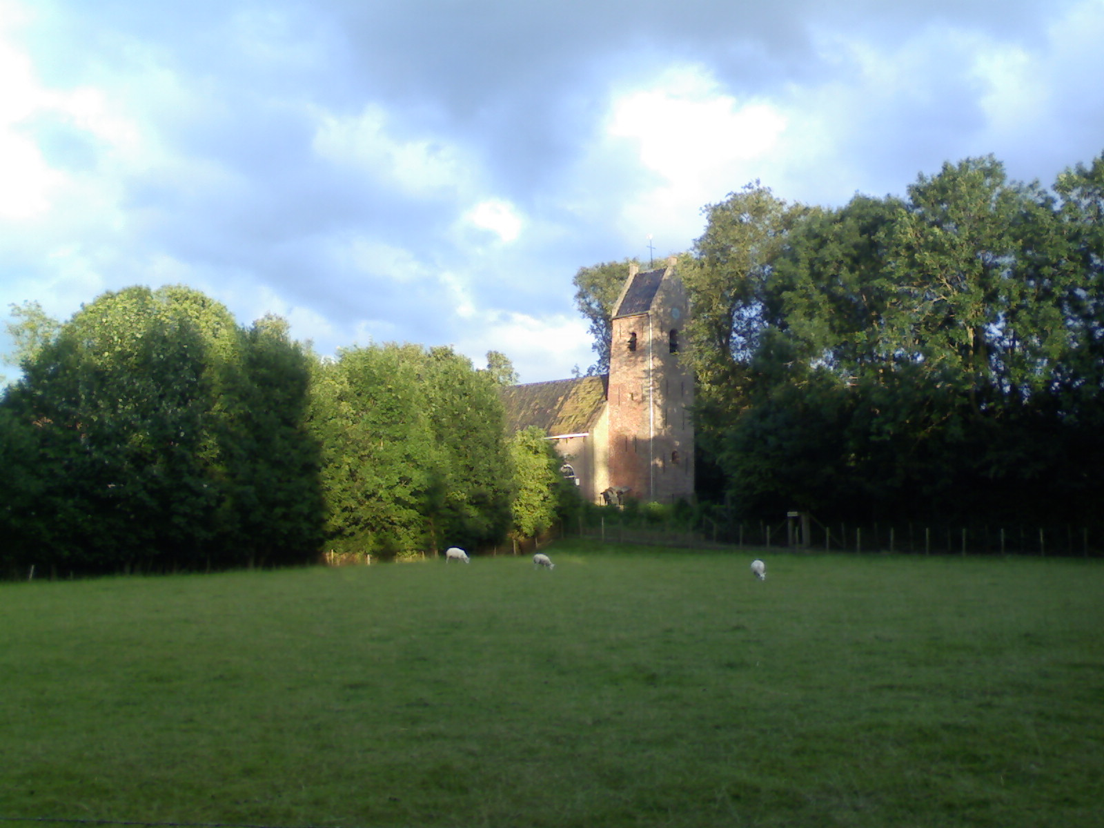 Church of St. Mary in Foudgum